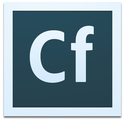 Computer icon of Adobe ColdFusion v10. Not be confused with with Adobe ColdFusion Builder.